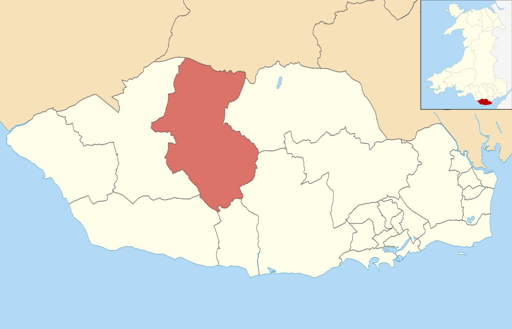 Location map showing electoral ward of Cowbridge within the Vale of Glamorgan, Wales